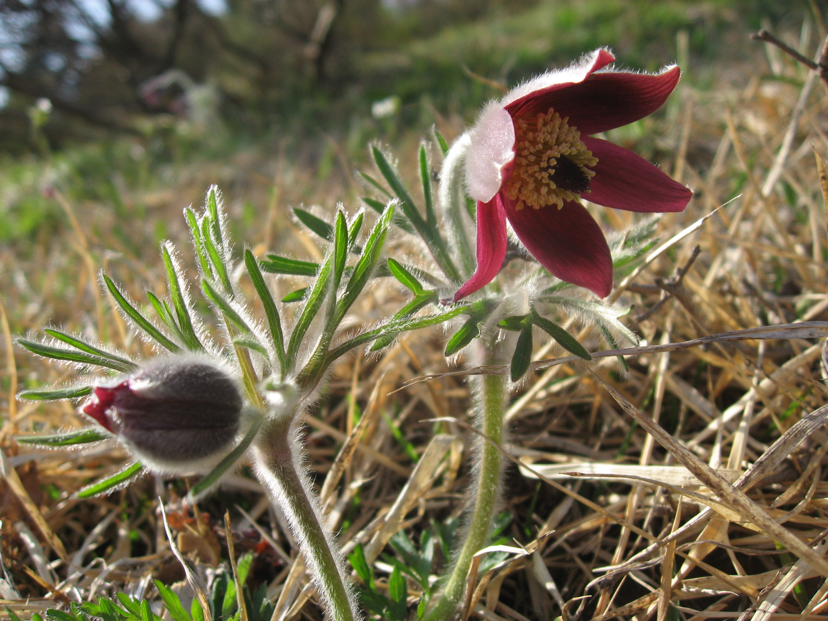 Pulsatilla cernua, Aizu area, Fukushima pref., Japan